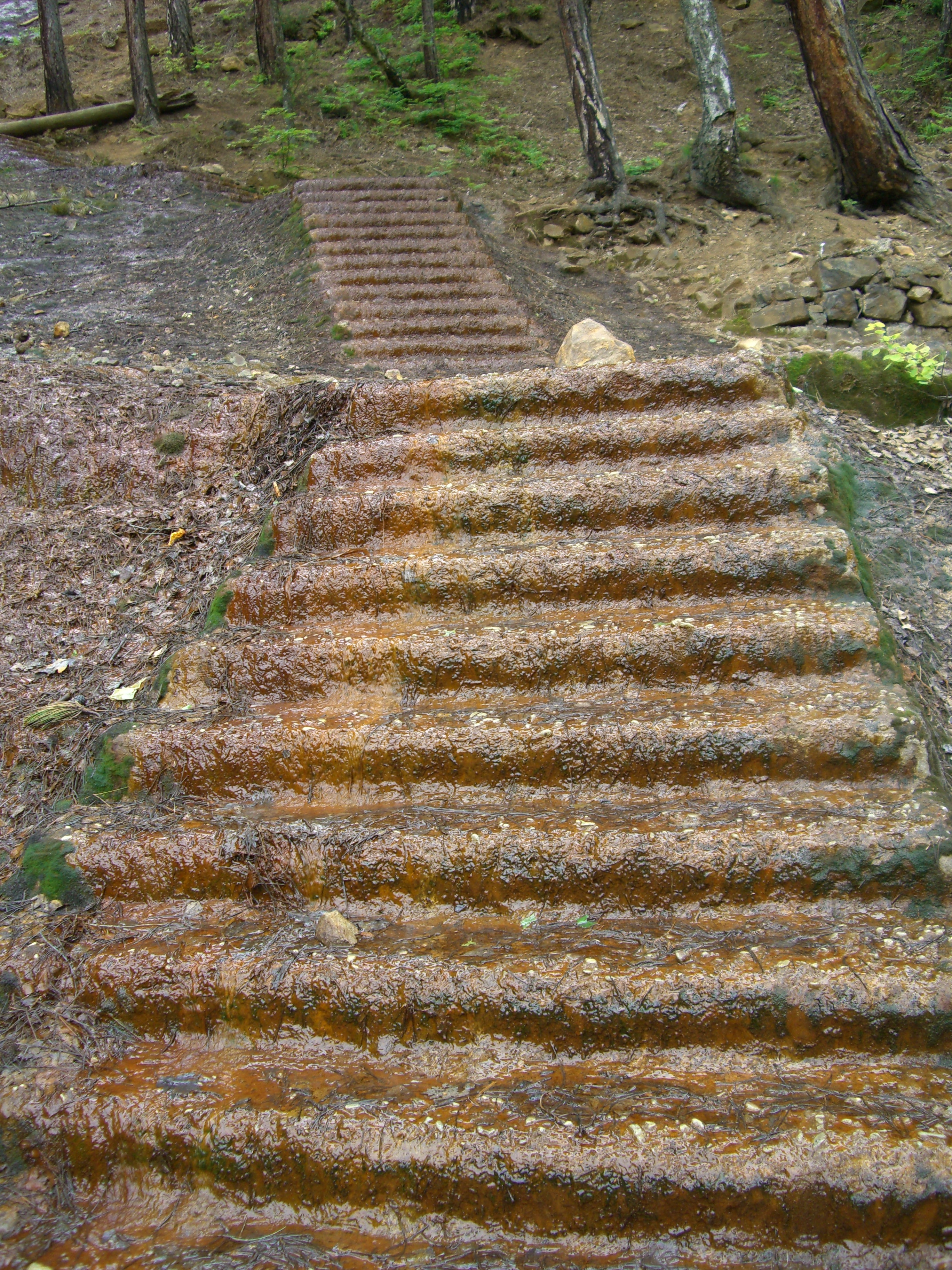 staircase at Crni Guber